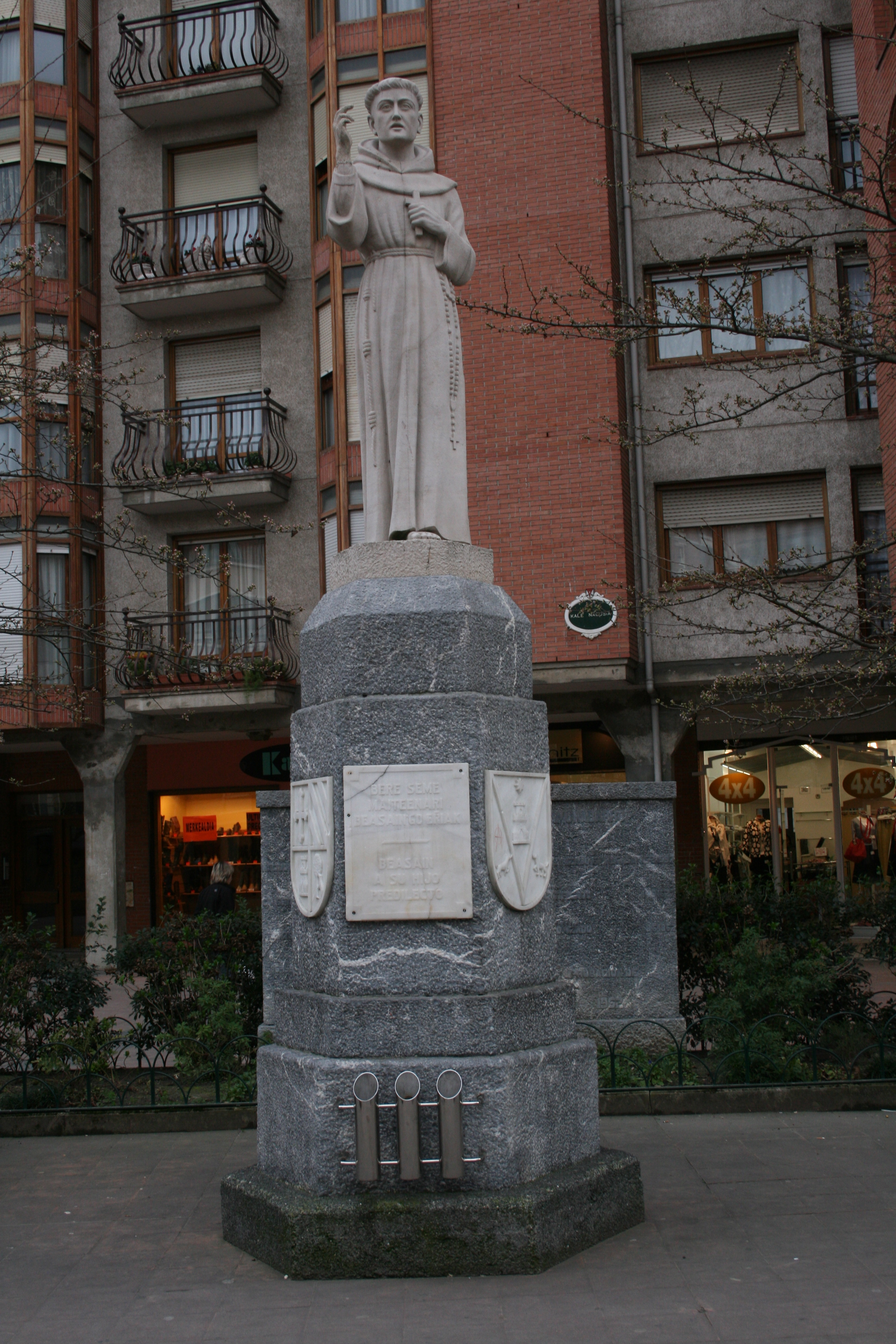 San Martin from Loinaz statue in Beazain Made and designed by Amador Lucarini, Gipuzkoa, Basque Country